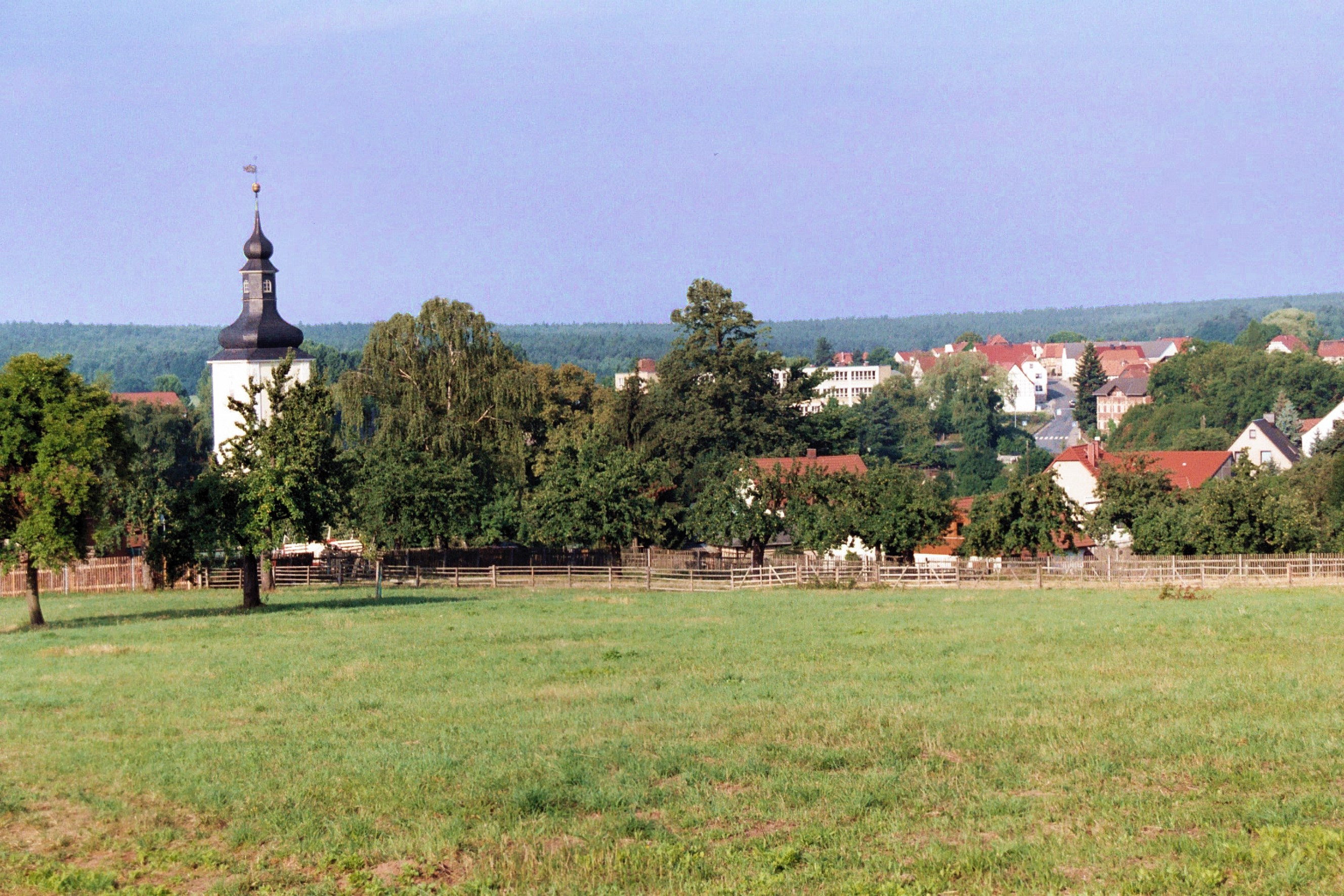 Sankt Gangloff, view to the village